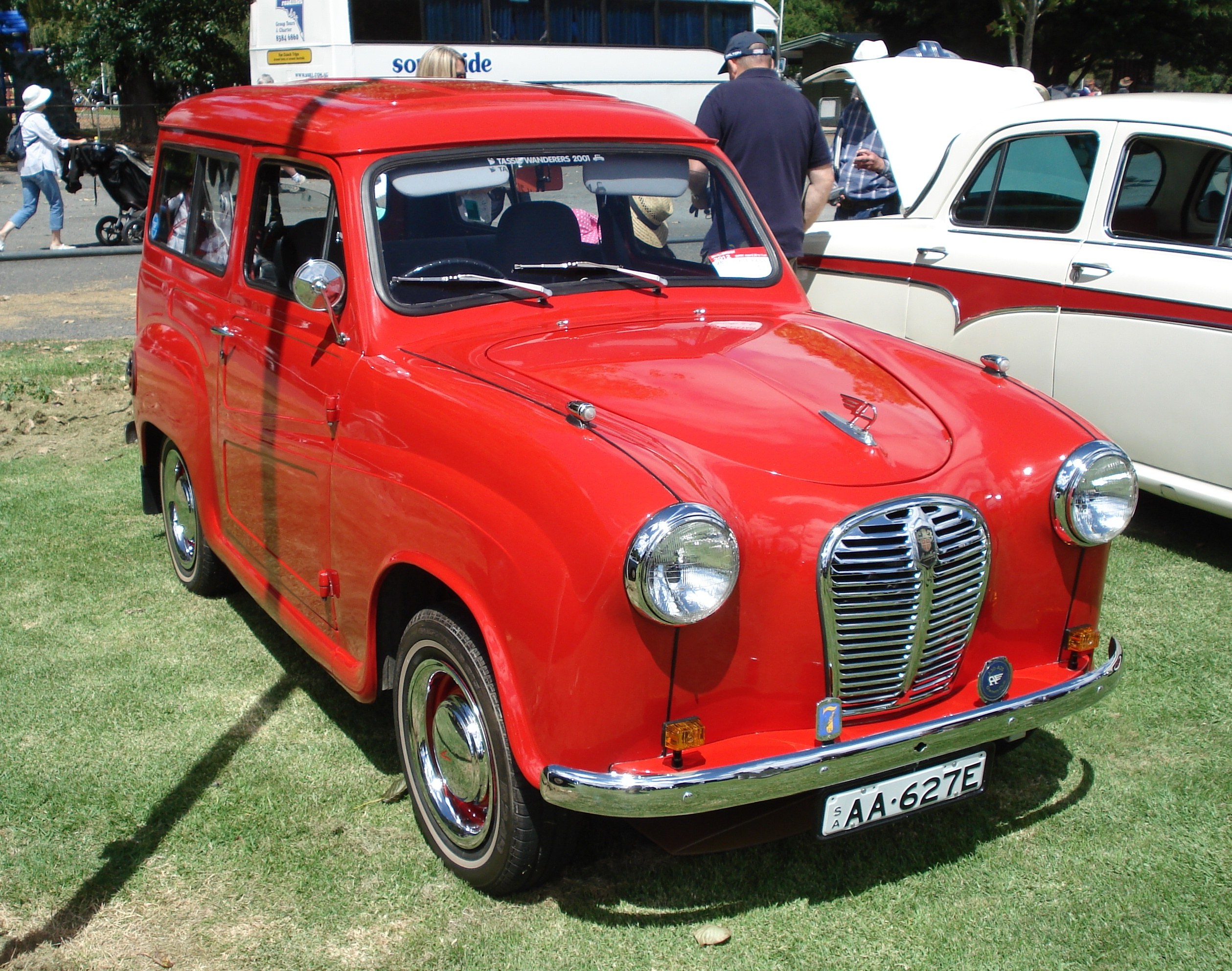 1956 Austin A30 Countryman